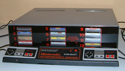 M82 Demo Unit.